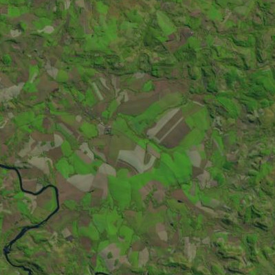 Vista Alegre crater, an eroded impact crater in southern Brazil, South America. Image acquired on 22 July 2017.